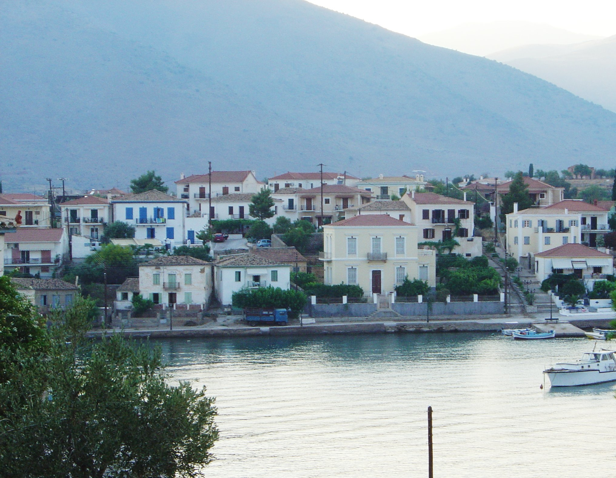 Galaxidi (photo taken in the early evening, colors boosted)